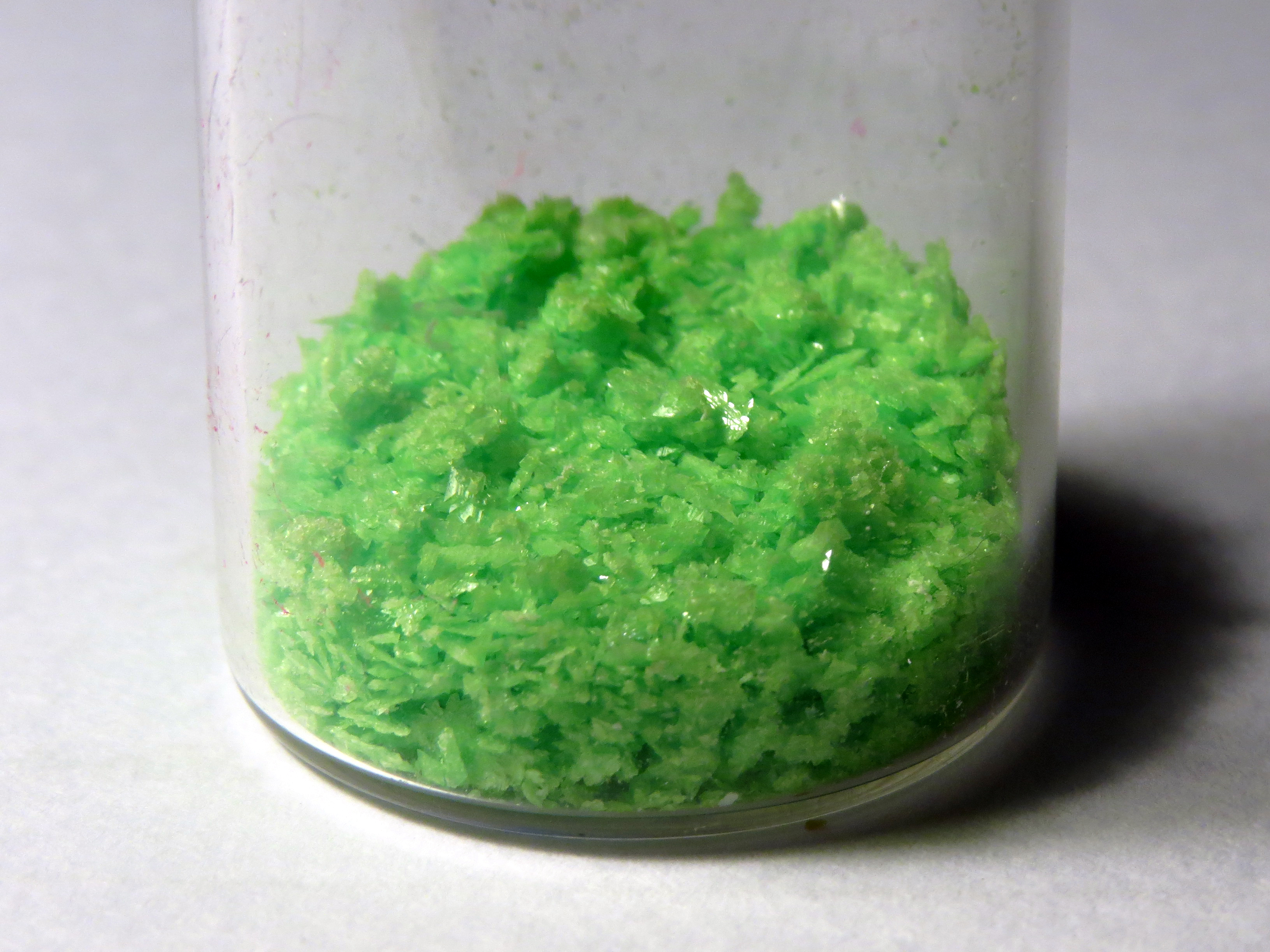 crystals of potassium trisoxalato iron (III) trihydrate, K3[Fe(C2O4)3]·3H2O, prepared via reaction of potassium oxalate with iron(III) chloride followed by filtration and recrystallisation